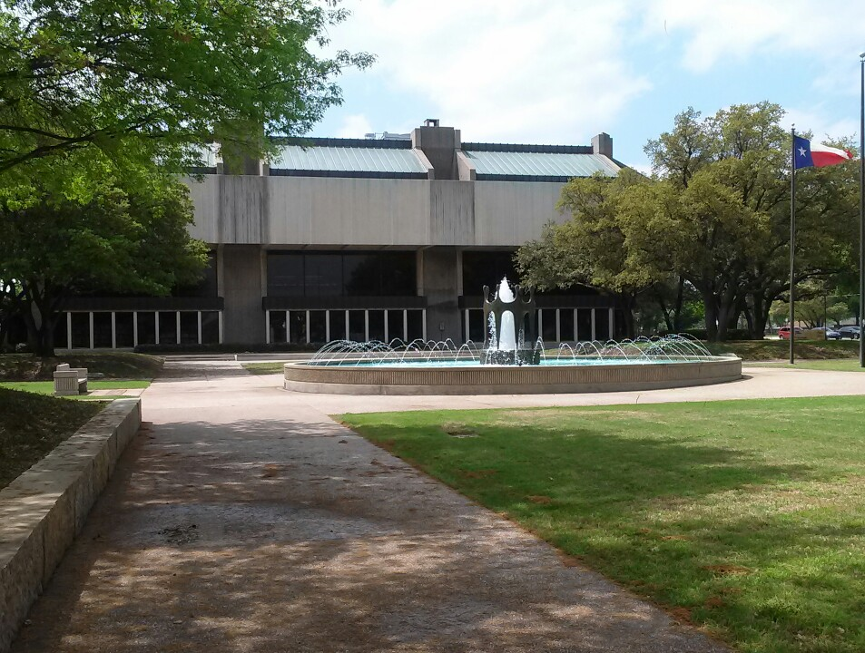 Richardson Public Library